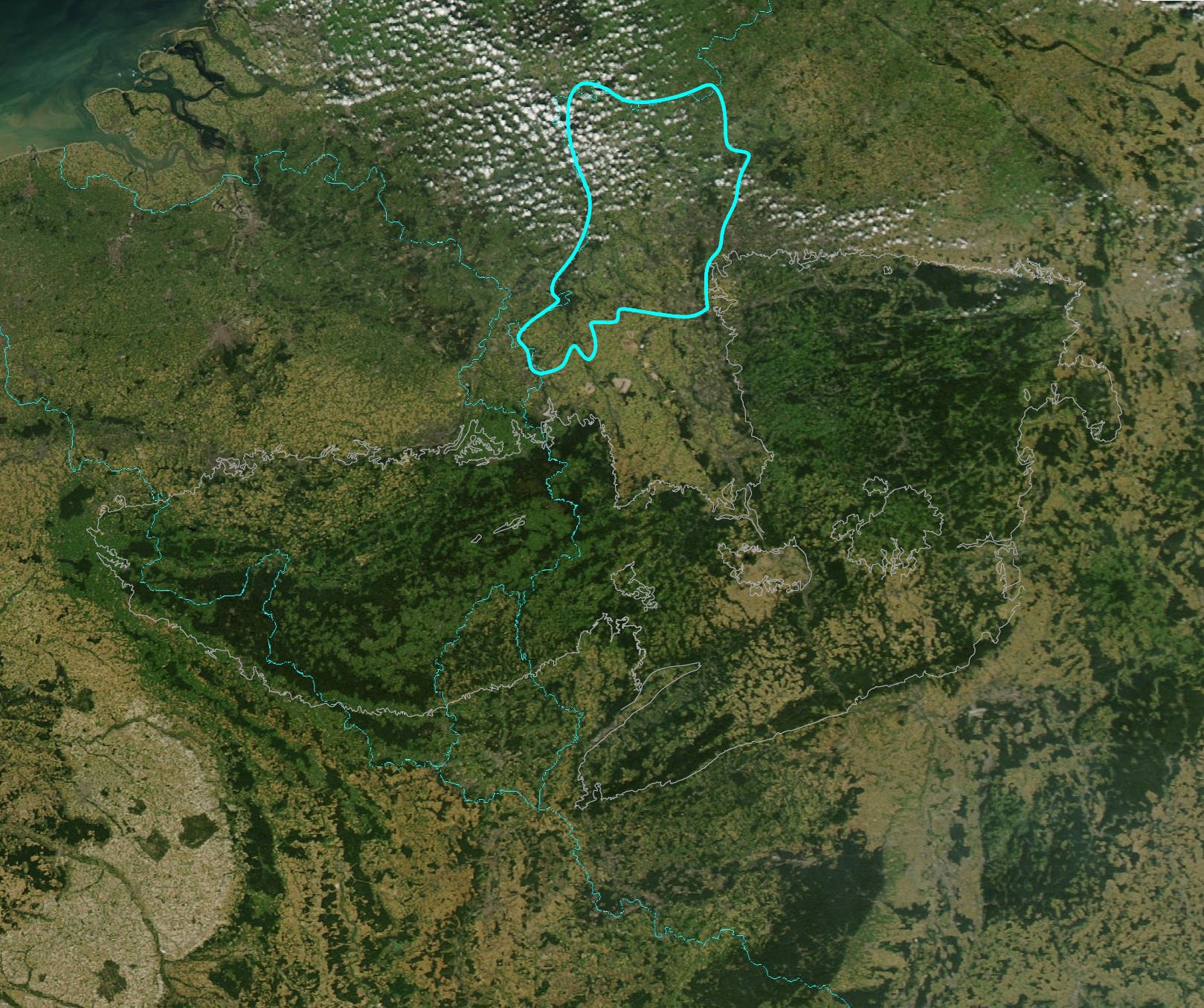 Outline of the Niederrheinisches Tiefland (fat line) on satellite image of Rheinisches Schiefergebirge (grey outline). Boundaries of Germany (right), the Netherlands (top), Belgium (upper left), France (lower left) and Luxemburg (lower center) for orientation (cyan).